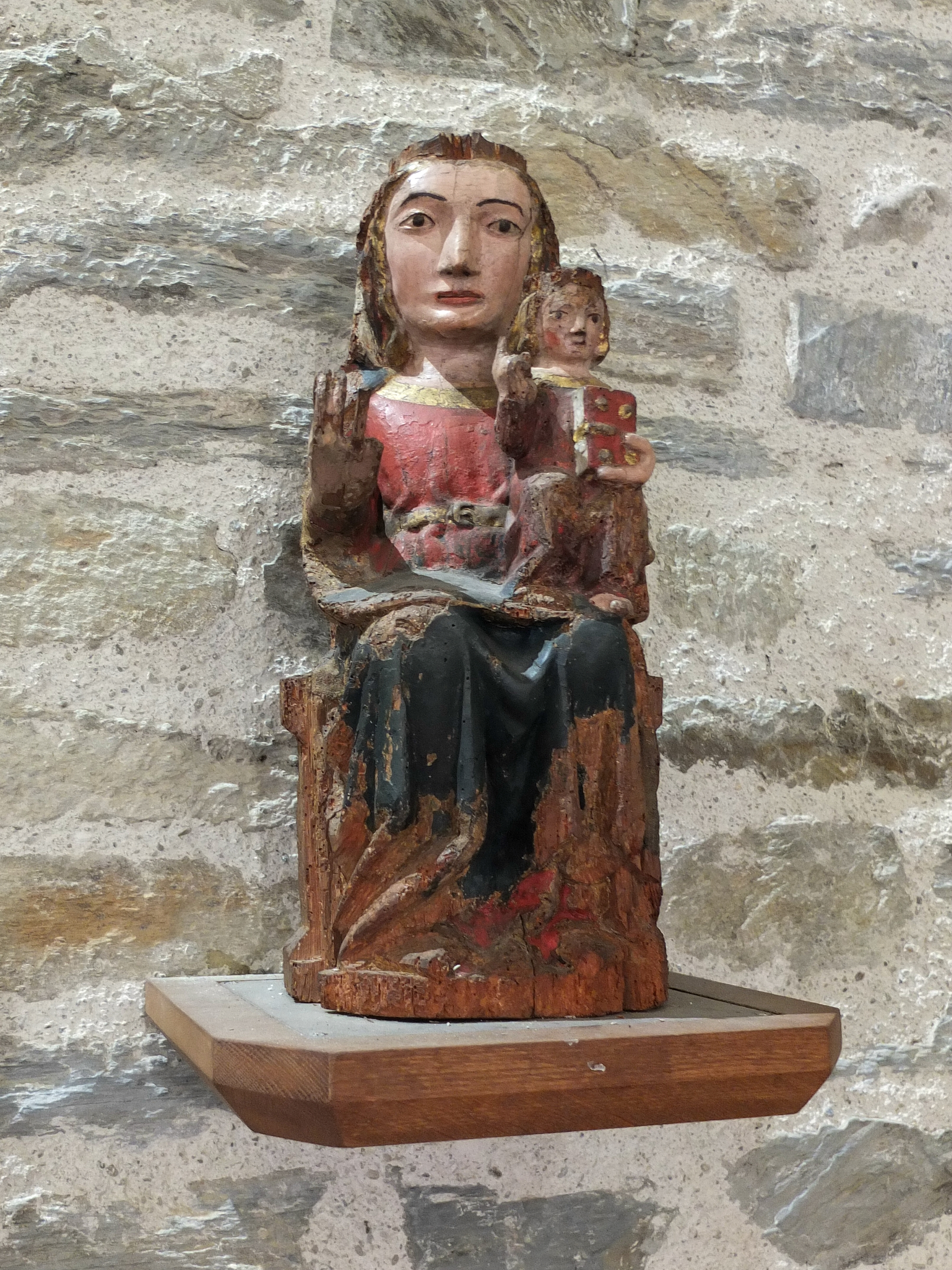 Statue of Madonna and Child (13th-14th century) in "Chapelle de la Trinité de Prunet-et-Belpuig", Roussillon, France.